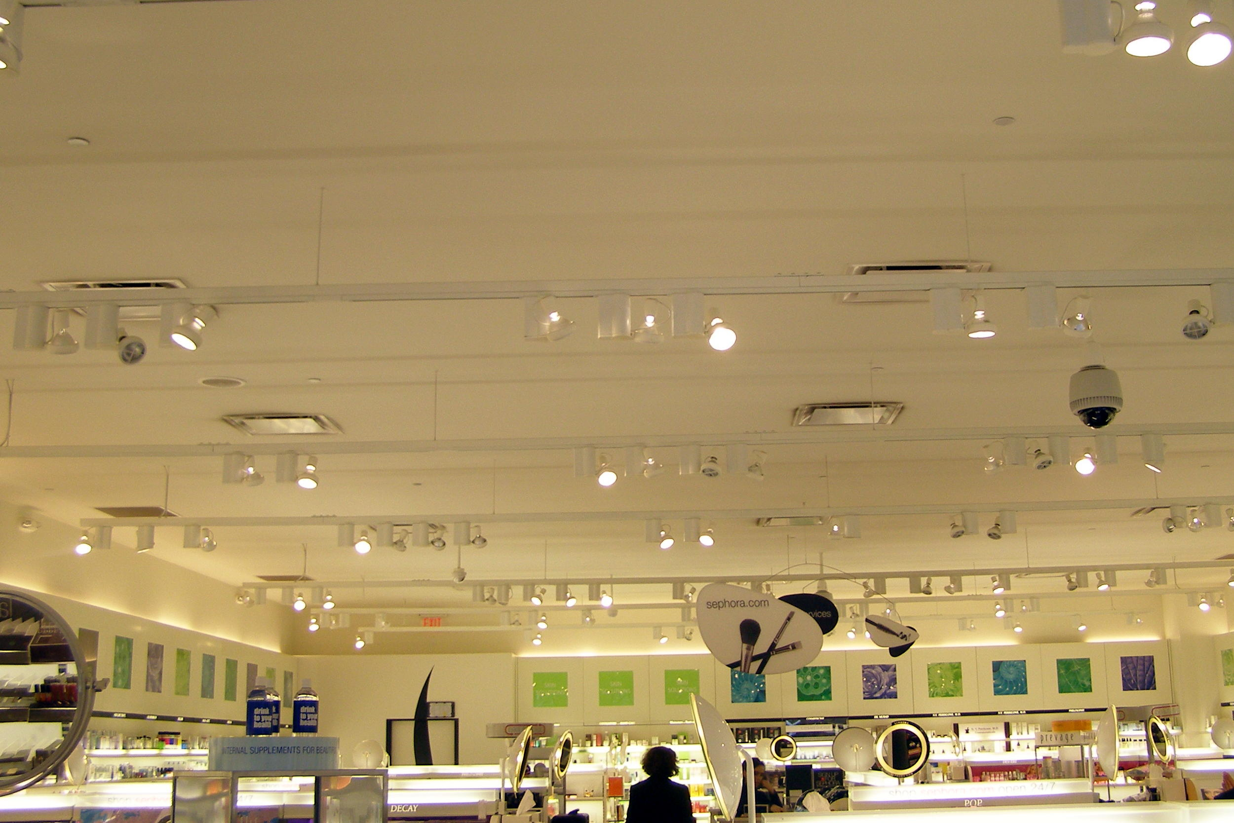 This cosmetics store has lighting levels over twice recommended levels.